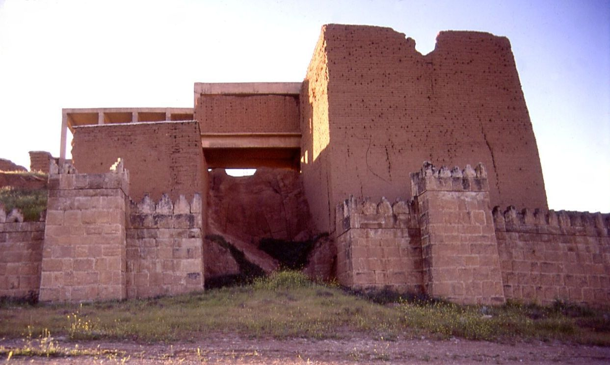 Nineveh. Adad Gate. One of the fifteen gateways of ancient Nineveh.. A reconstruction was begun in the 1960s by Iraqis, but was not completed. The result is an uneasy mixture of concrete and eroding mudbrick, which nonetheless does give one some idea of the original structure. The lower portions of the stone retaining wall are original. Fortunately, the excavator left some features unexcavated, allowing a view of the original Assyrian construction. The original brickwork of the outer vaulted passageway is well exposed. The actions of Nineveh's last defenders can be seen in the hastily built mudbrick construction which narrows the passageway from 4 m. to 2 m. Height of vault is about 5 m. Photo by Fredarch.